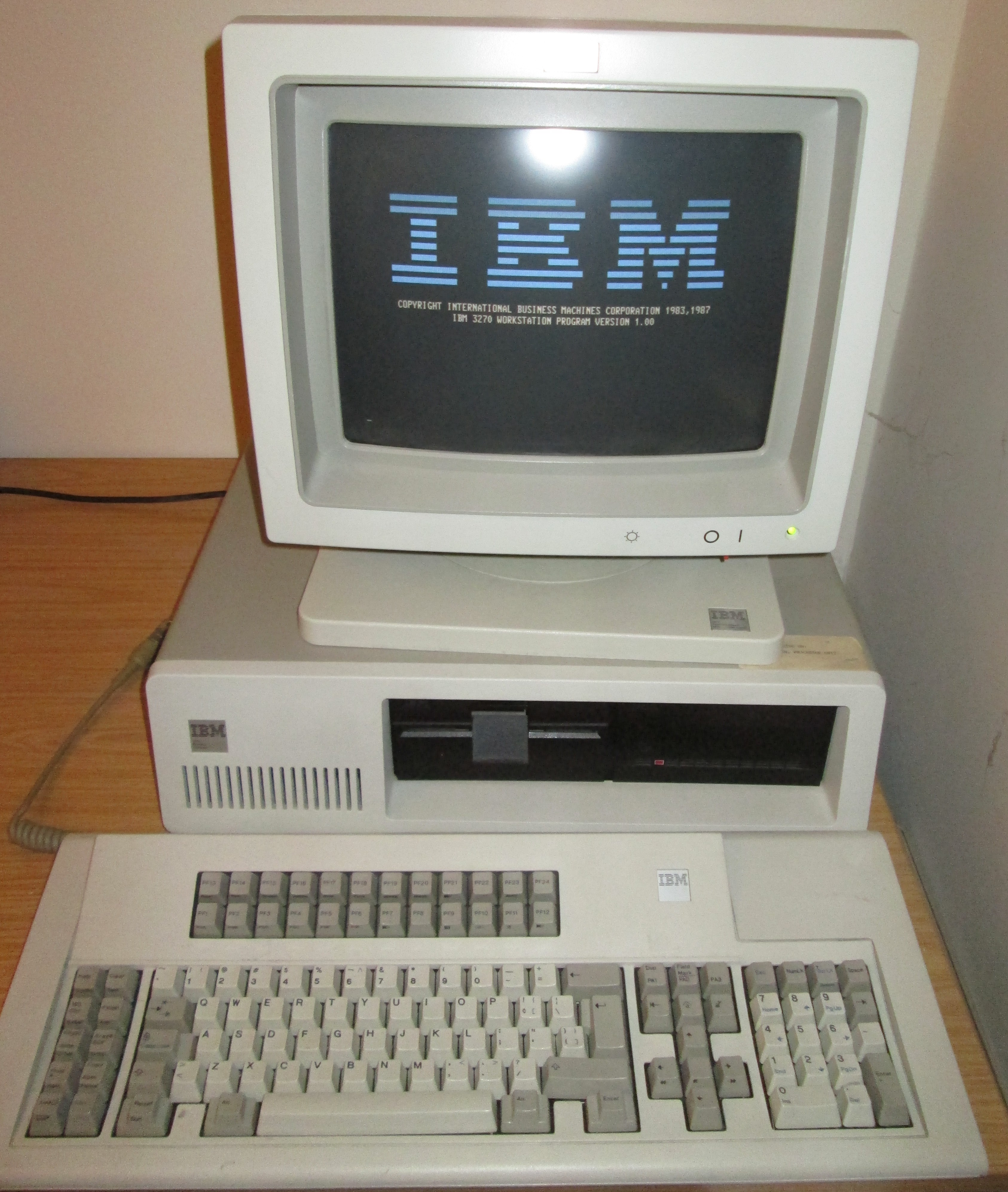 IBM 3270 PC with 122-key keyboard and 5272 colour monitor.